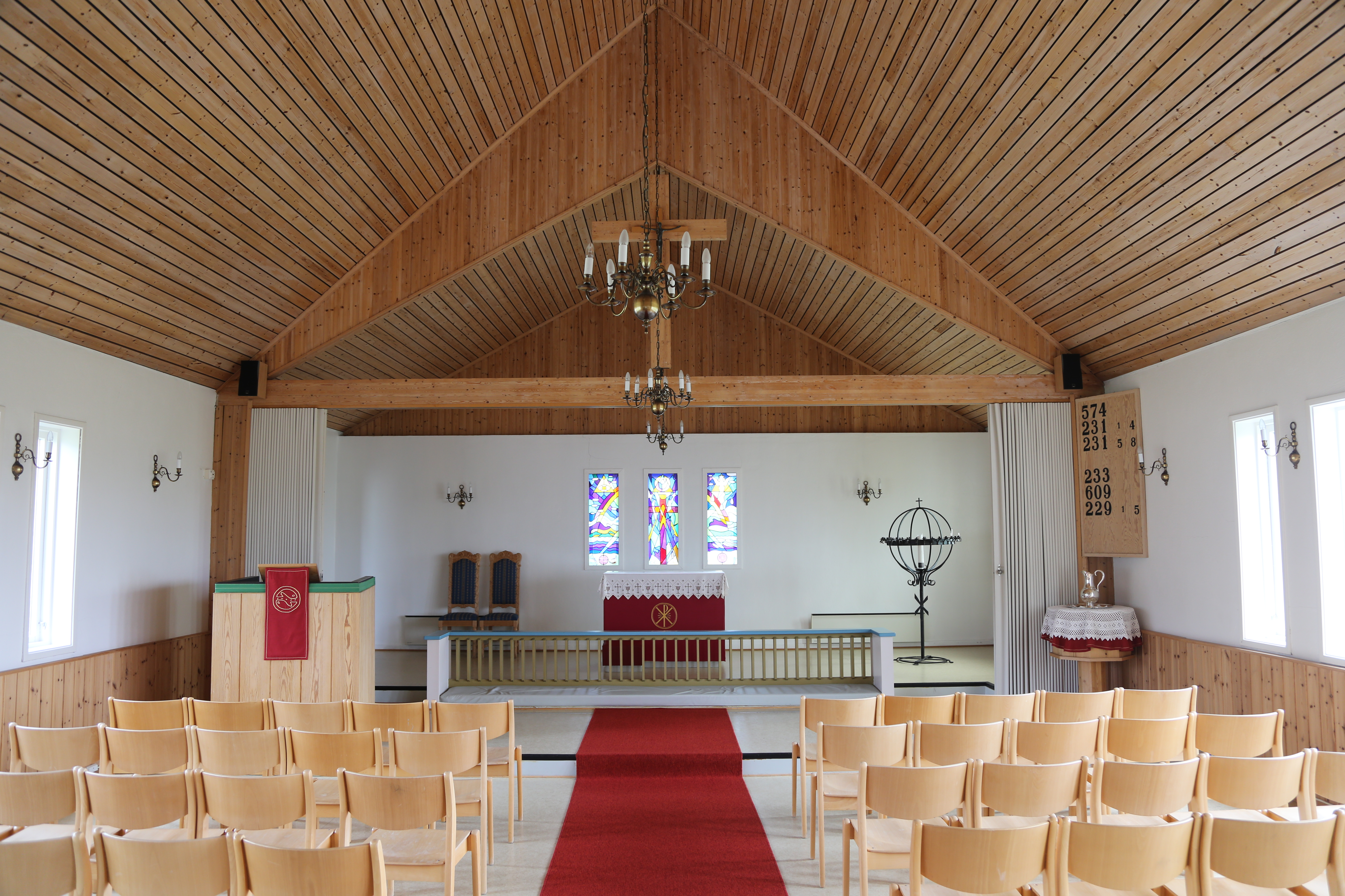 Sørvær kapell in the village Sørvær, Hasvik kommune, Finnmark